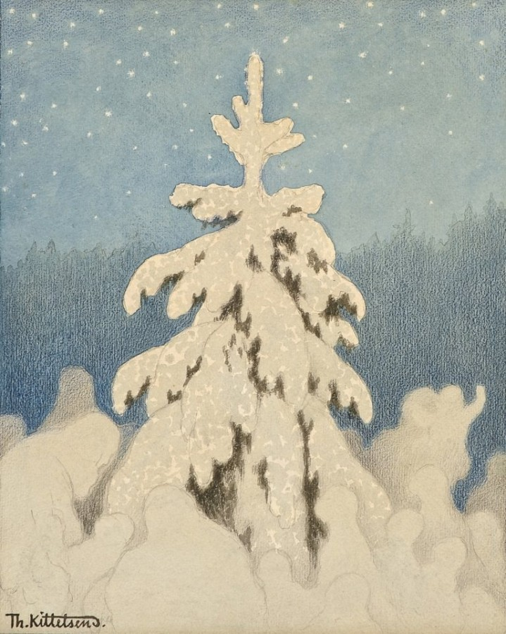 Theodor Severin Kittelsen (Norwegian, 1857-1914) «The Christmas Tree»